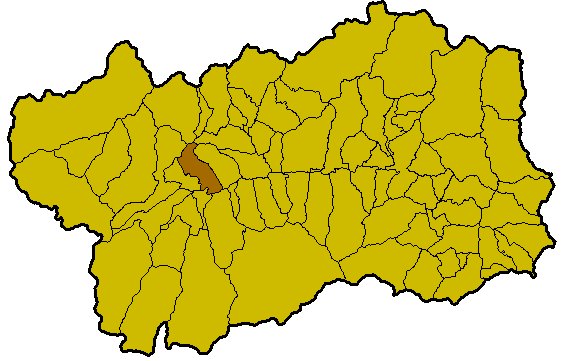 Locator map of Saint-Pierre, Italy